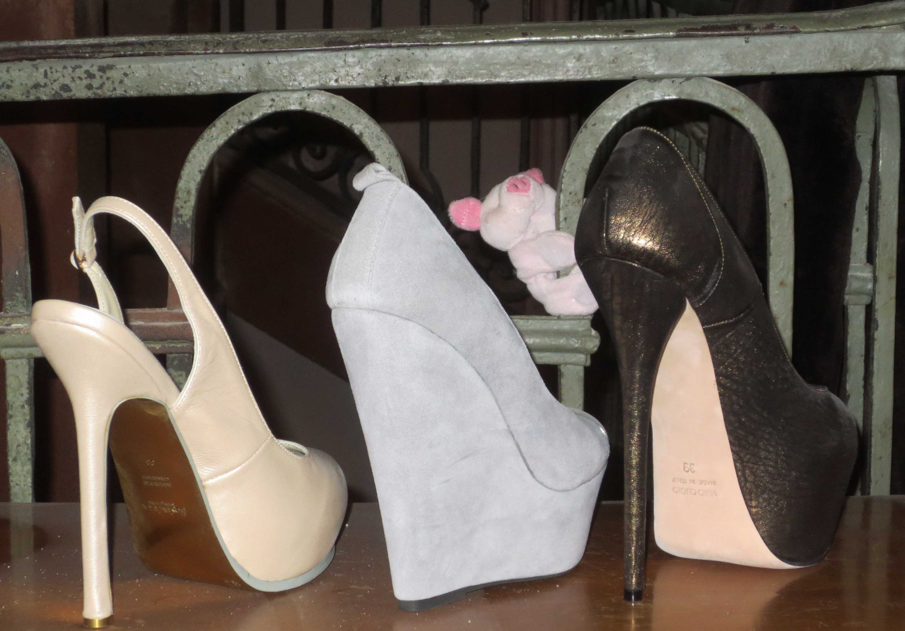 Platform High Heels with 4 to 5 to 6 cm Platform and 15 to 16 to 17 cm heels